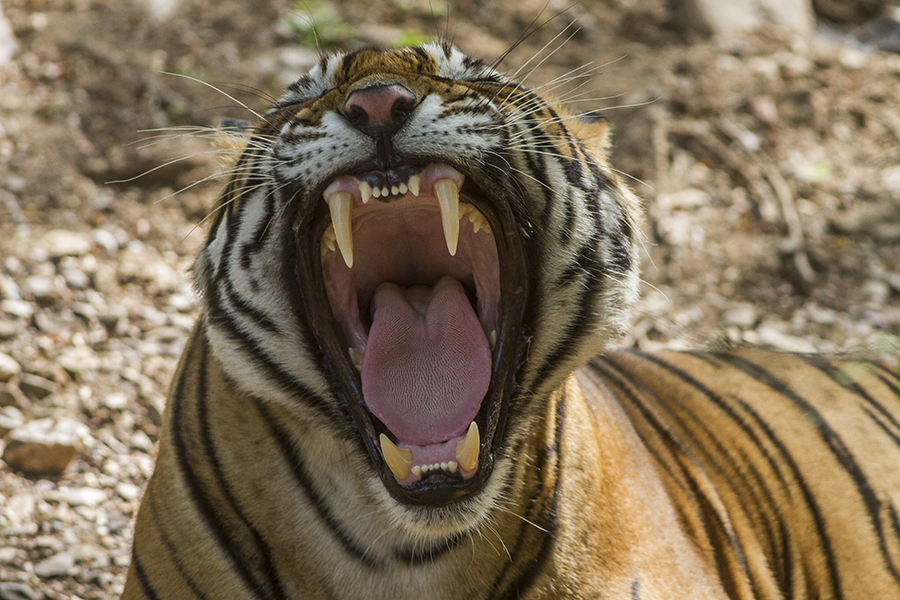 This image of tiger dentition has been captured during the tiger safari at Ranthambhore Tiger Reserve, Rajasthan, India on 12.10.2014. This is an image of the subadult tiger "Sultan" or "T72".